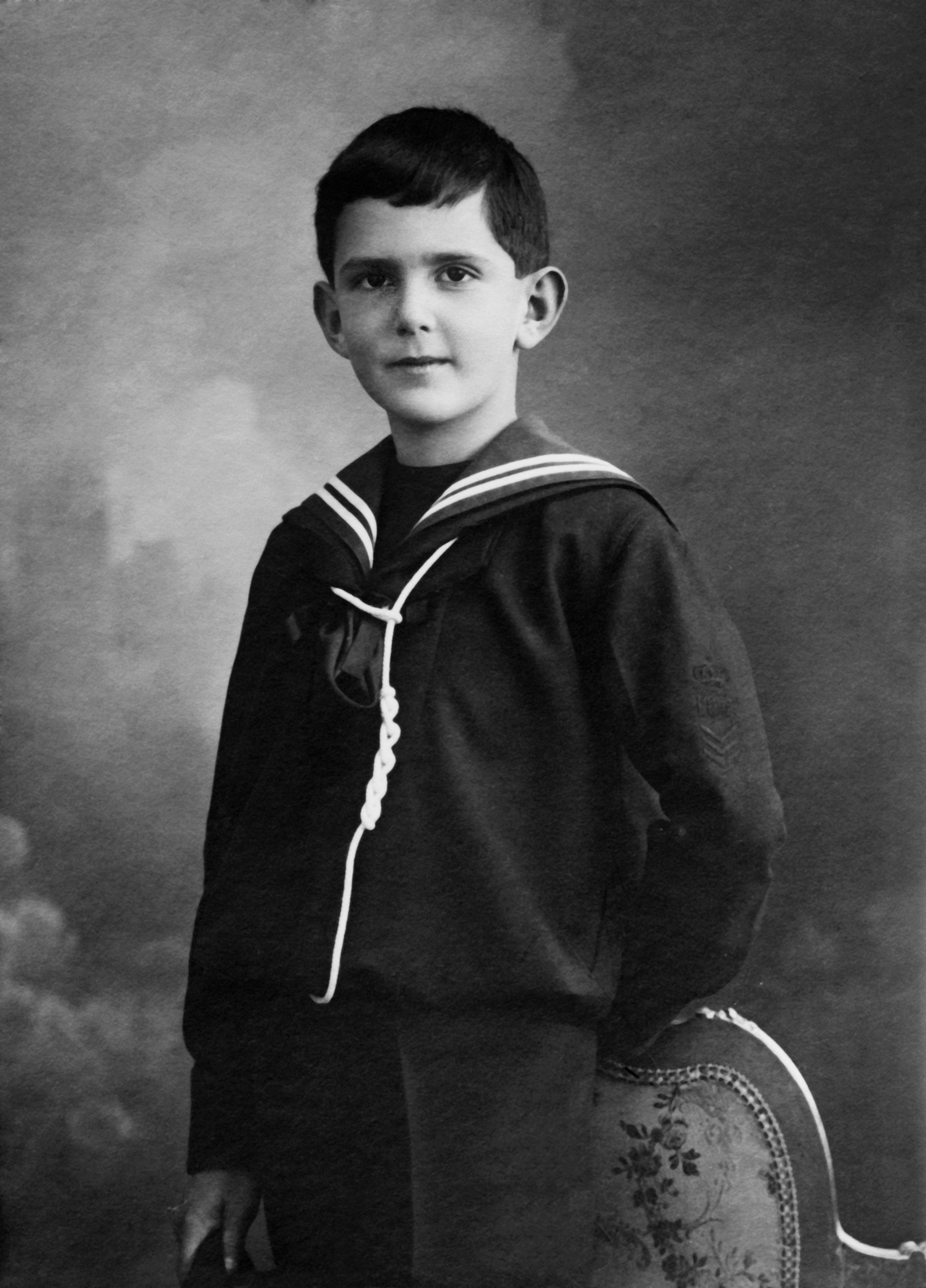 King Umberto II of Italy (1904-1983) as a young boy.